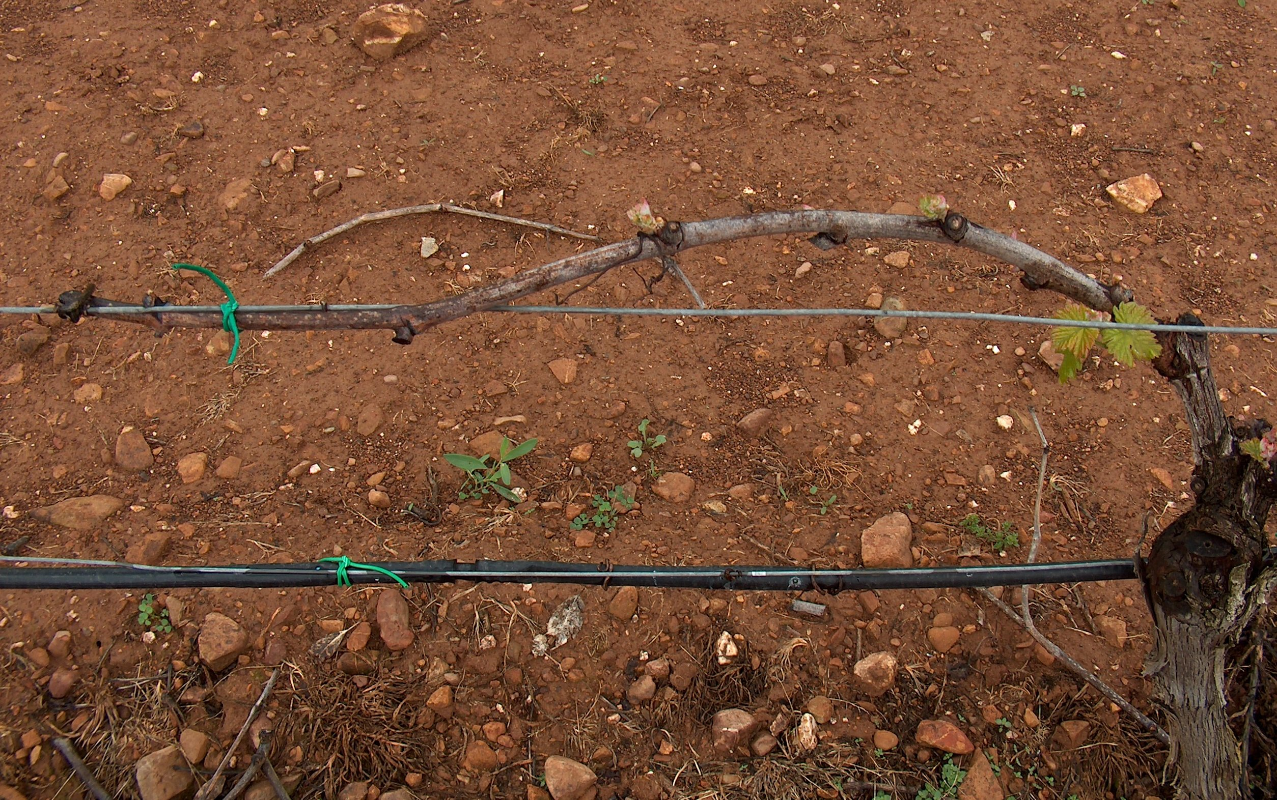 Detail of grapevine grown with Simple Guyot system: cane with 8 buds.